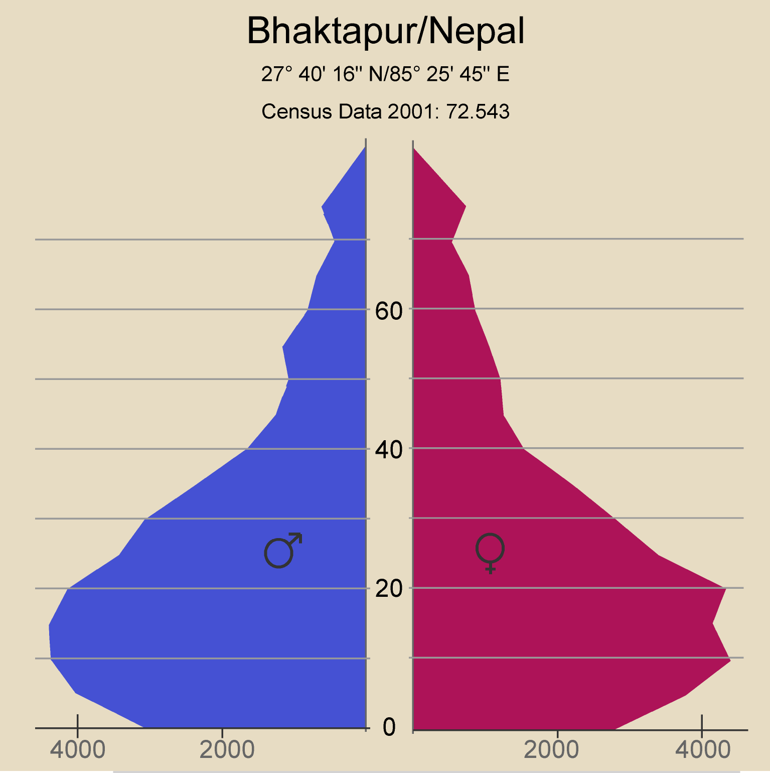 Demographic structure of Bhaktapur (Nepal)